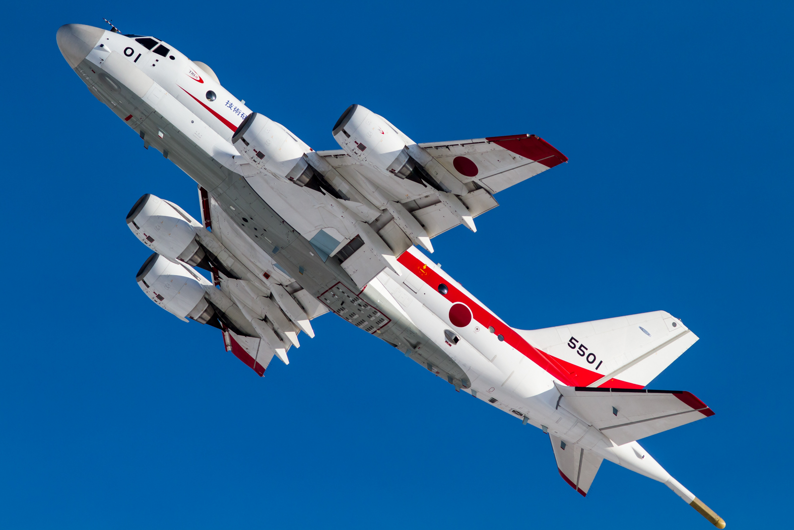 Aircraft: Kawasaki Heavy Industries, Ltd.（川崎重工業）XP-1 飛行試験1号機(S/N:5501) Squadron: JMSDF Fleet Air Wing 4 / 51SQ（海上自衛隊 第4航空群 第51航空隊） Base: Atsugi AB (RJTA), Kanagawa-ken, Japan 15/01/2013 JSDF Atsugi AB, Japan